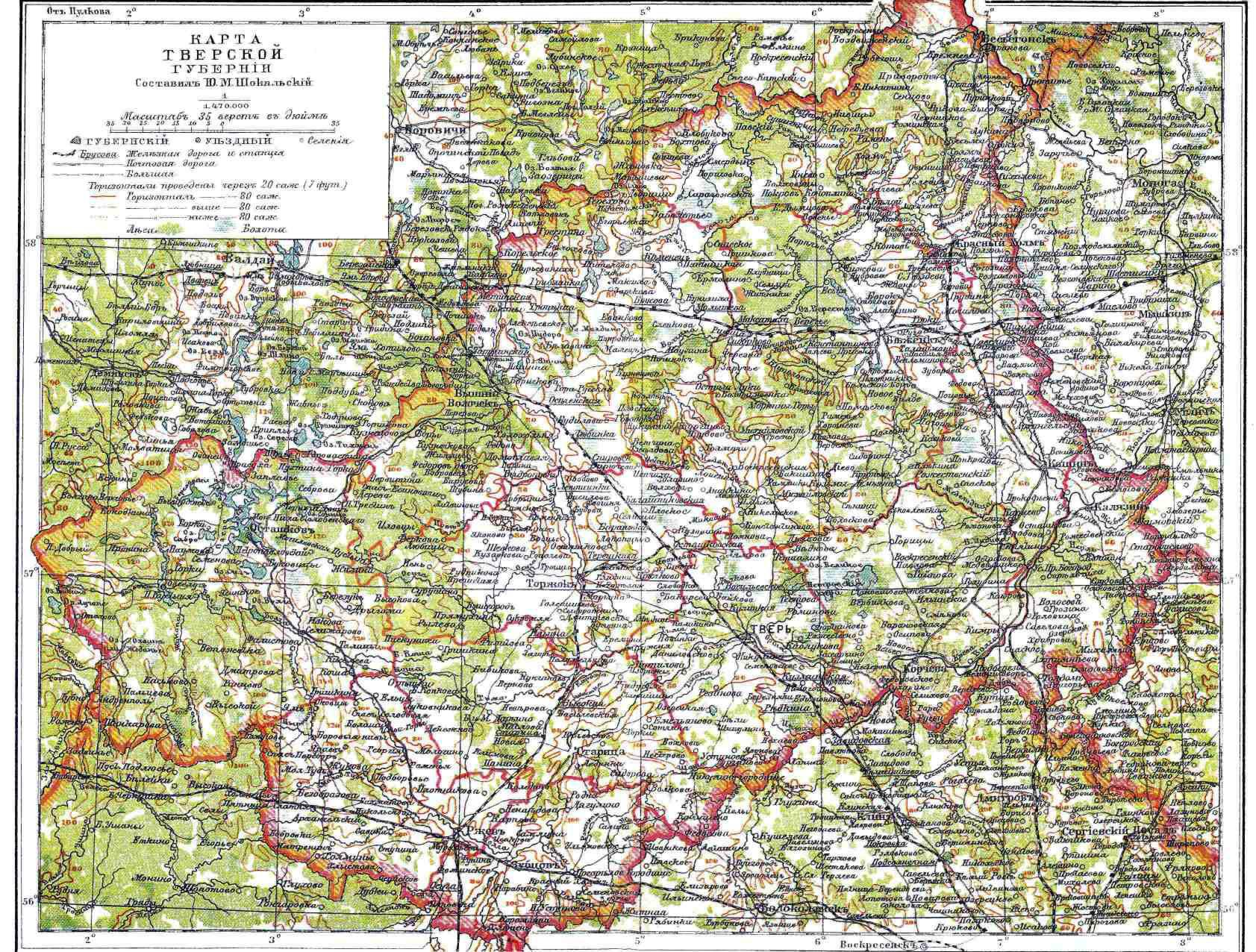 Map of Tver Governorate of Russian Empire from Brockhaus and Efron Encyclopedia